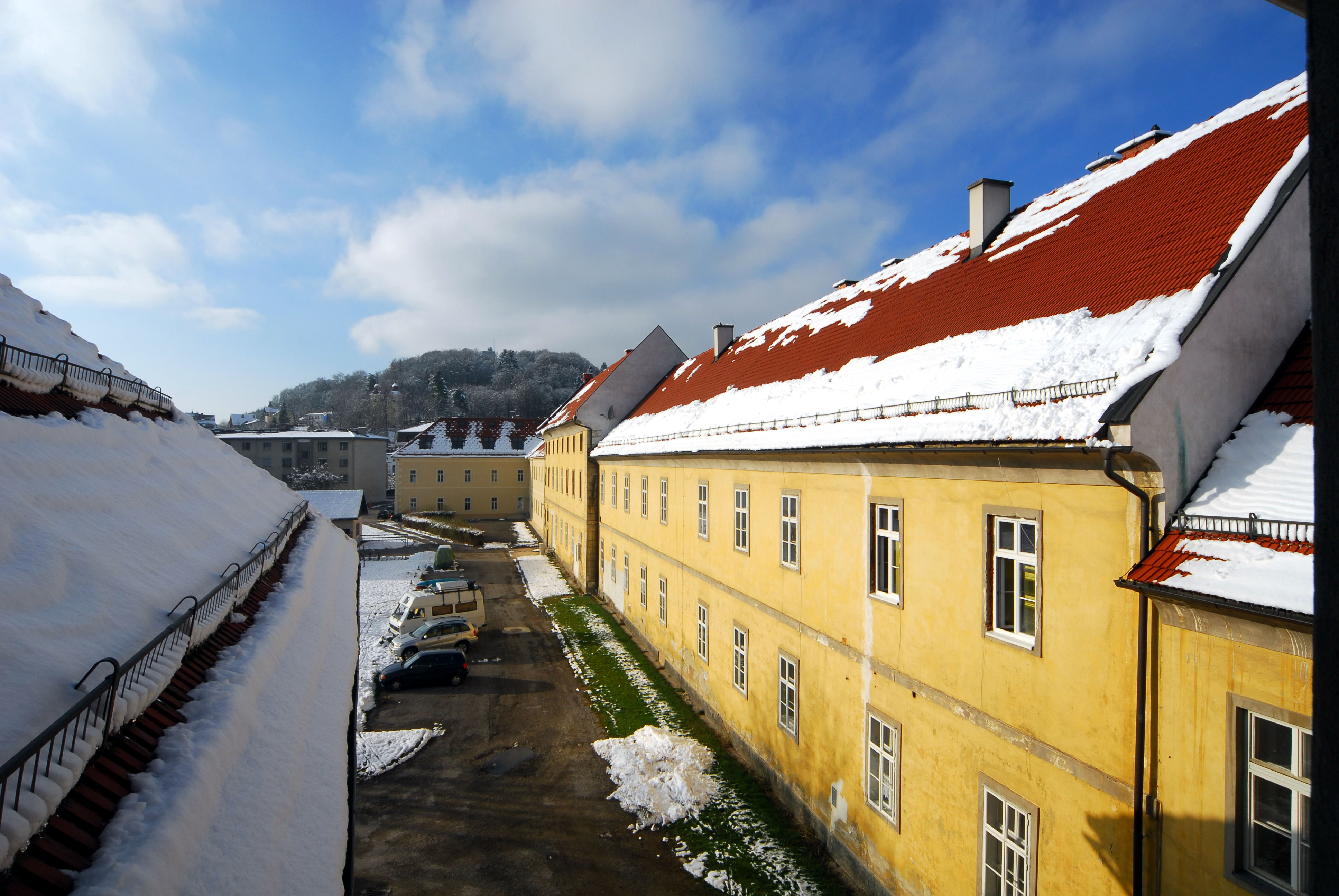 Former military hospital in the Lerchenfeldstrasse #51, situated in the 8th district “Villacher Vorstadt” of the Carinthian capital Klagenfurt on the Lake Woerth, Carinthia, Austria